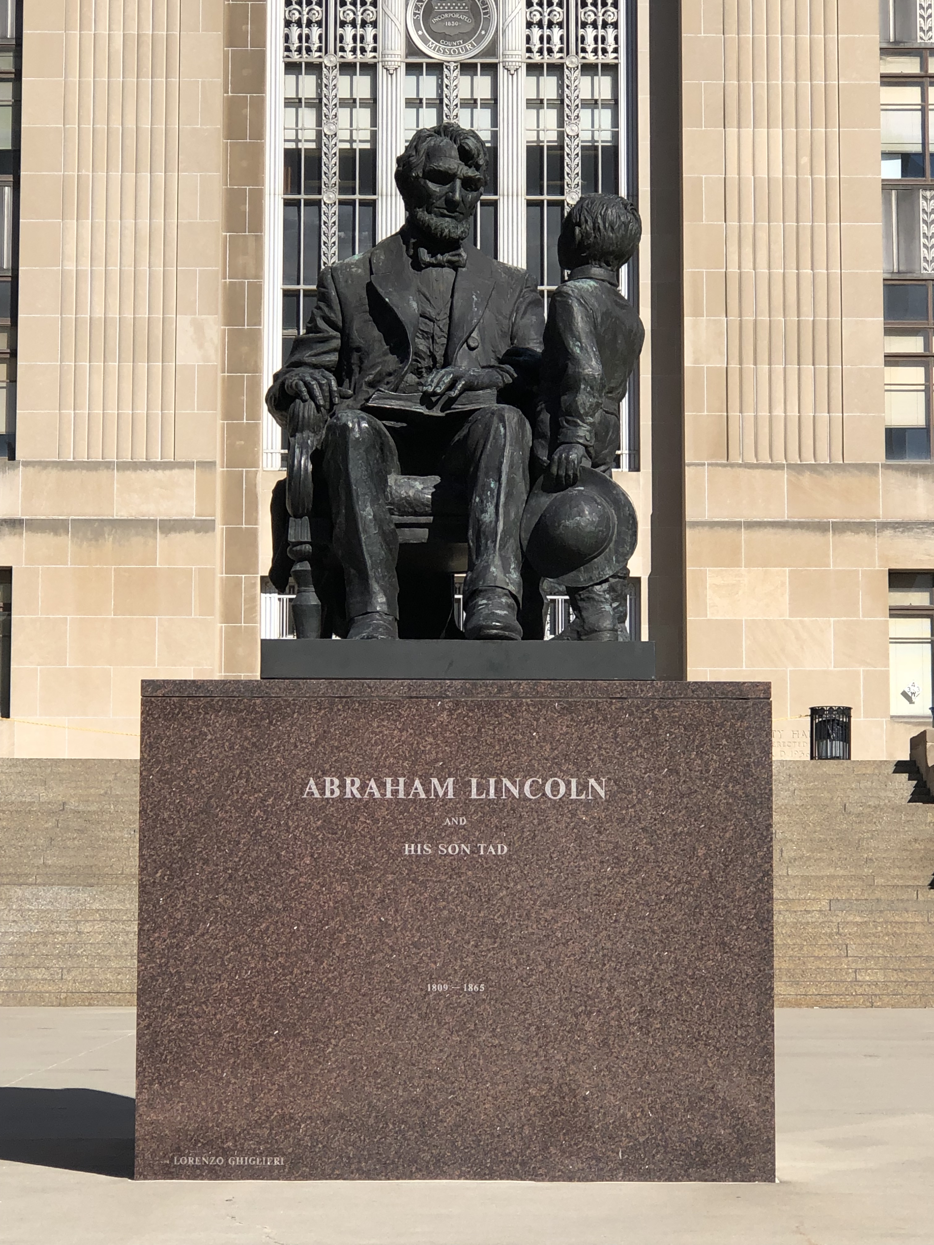 This is a photo of a statue depicting Abraham Lincoln and his son Tad. It is located on the south side of City Hall in Kansas City, Missouri.